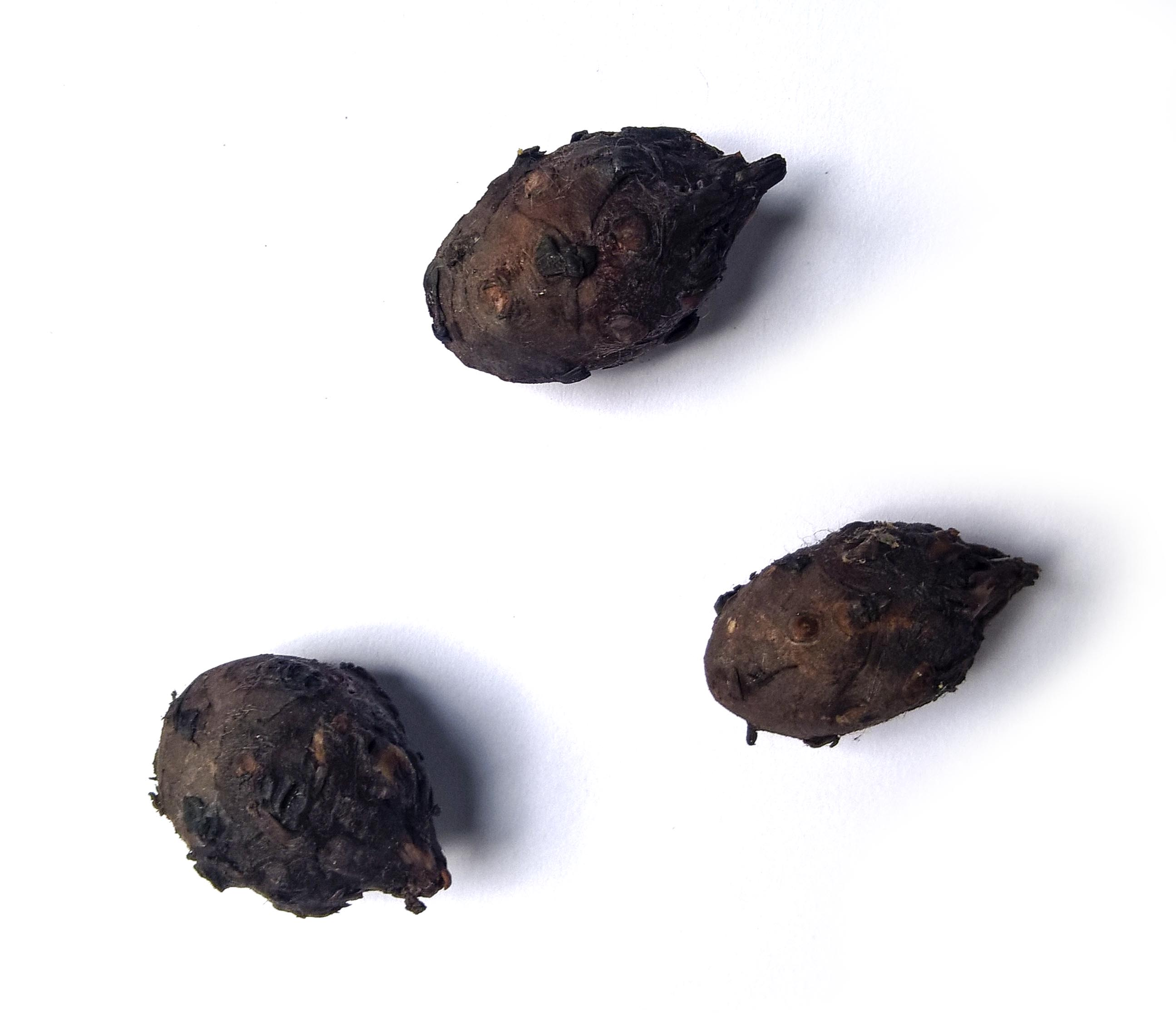 Nymphaeaceae is a family of flowering plants. Members of this family are commonly called water lilies and live as rhizomatous aquatic herbs in temperate and tropical climates around the world.